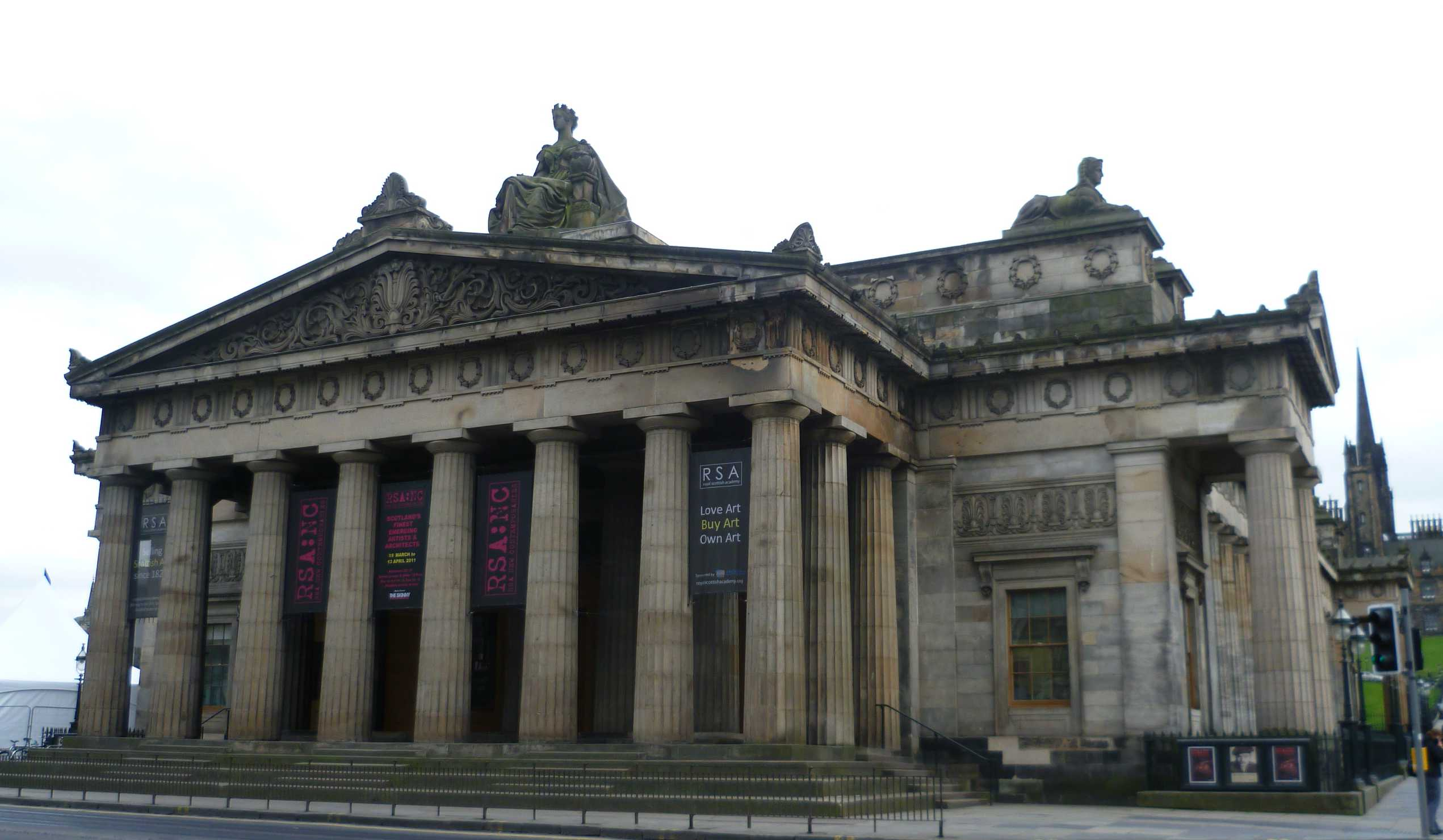 Royal Scottish Academy on the Mound, Edinburgh